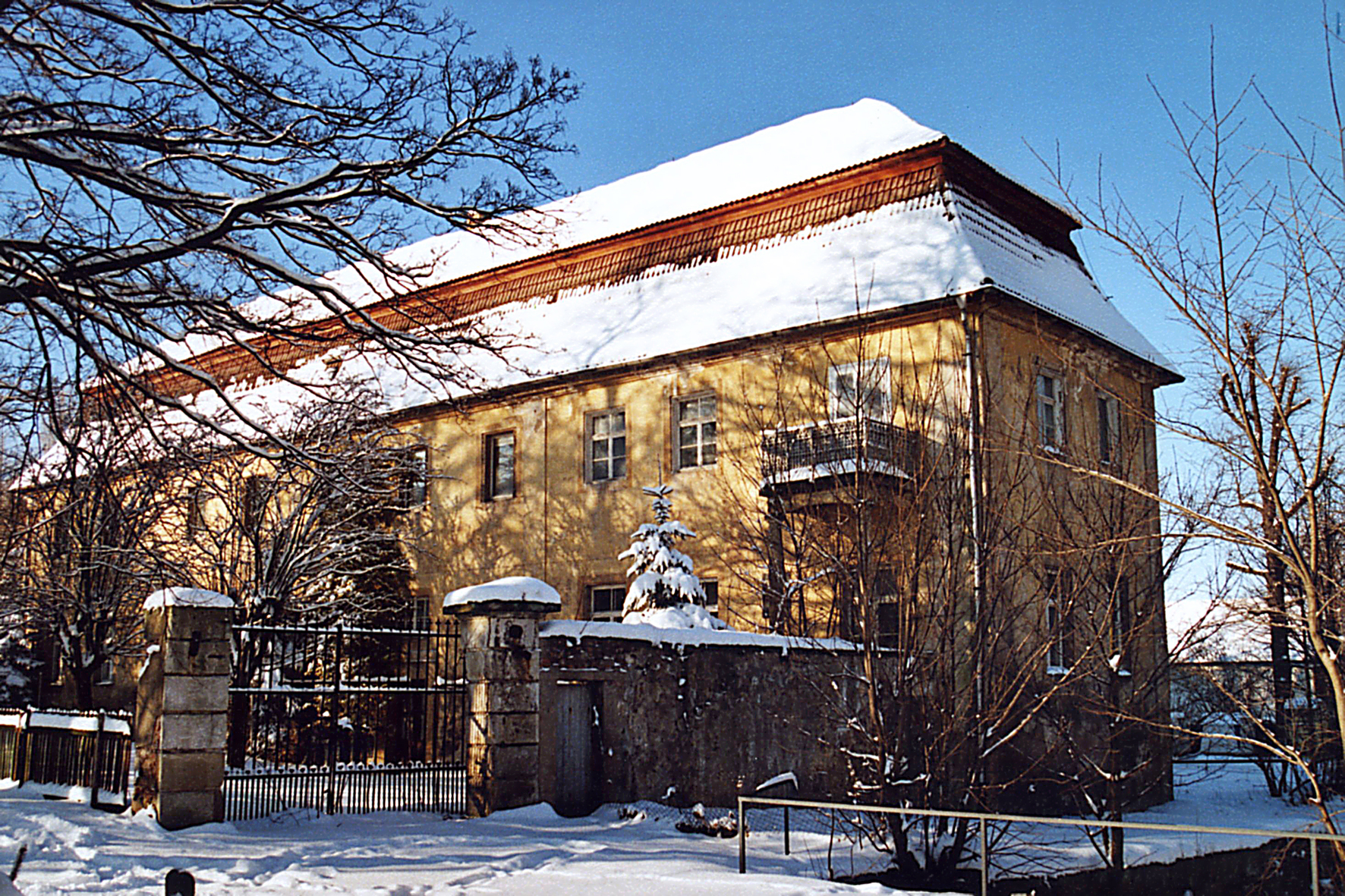 This image shows the birthplace of Johann Gottlob Lehmann in Langenhennersdorf in Saxony, Germany.